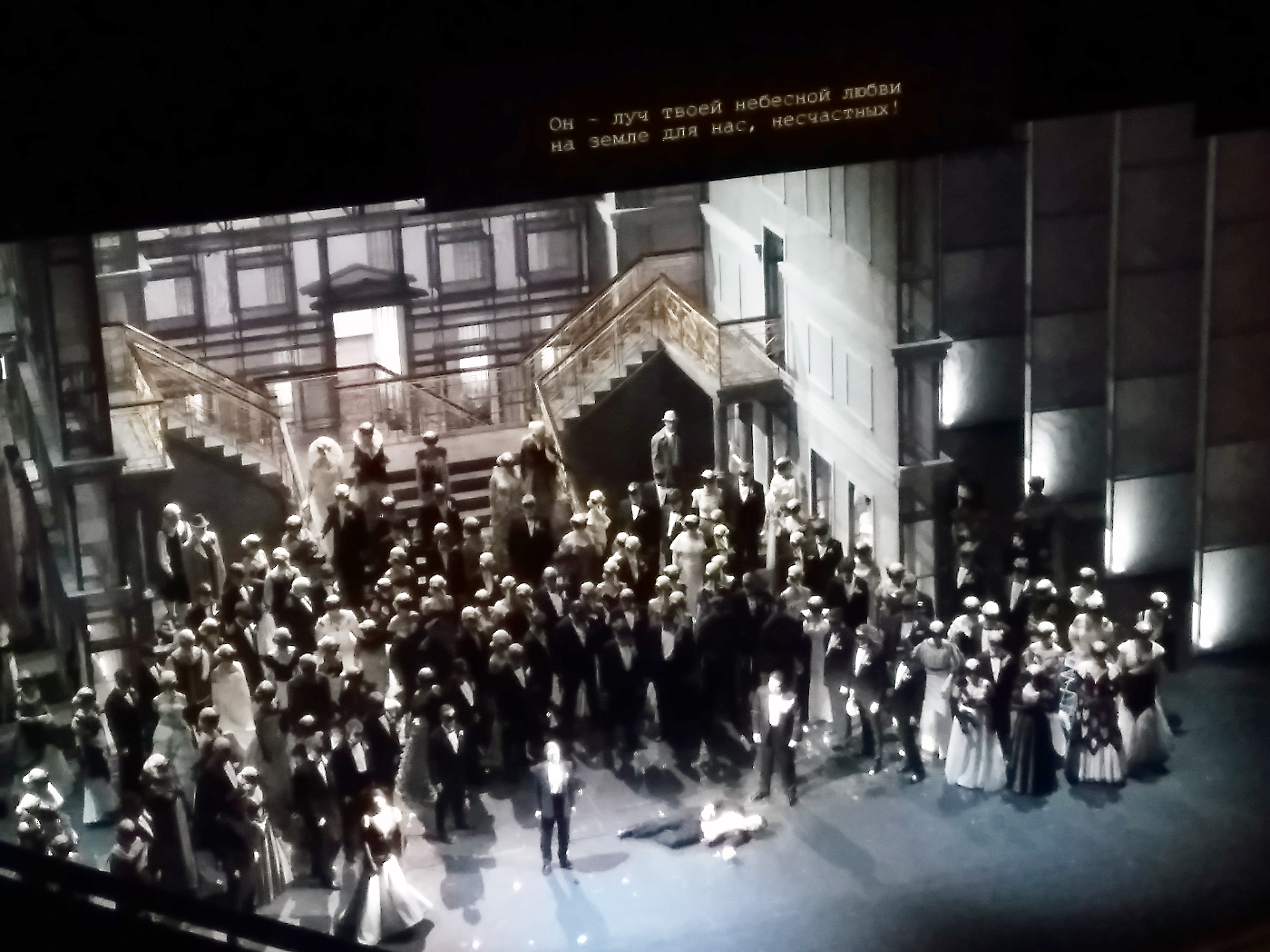 The third act of opera "Un Ballo in Maschera" by G. Verdi in Bolshoi Theatre, Moscow.Conductor — Anton GrishaninRichard, Earl of Warwick and governor of Boston — Otar Jorjikia Renato, a creole, Richard's friend and secretary — Elchin AzizovAmelia, wife of Renato — Dinara AlievaUlrica, a fortuneteller — Svetlana ShilovaOscar, Richard's page — Damiana Mizzi Silvano, a sailor — Nikolai KazanskySamuel, the governor's enemy — Yuri SyrovTom, the governor's enemy — Alexander BorodinThe Supreme Judge — Marat GaliAmelia's Servant — Stanislav Mostovoy